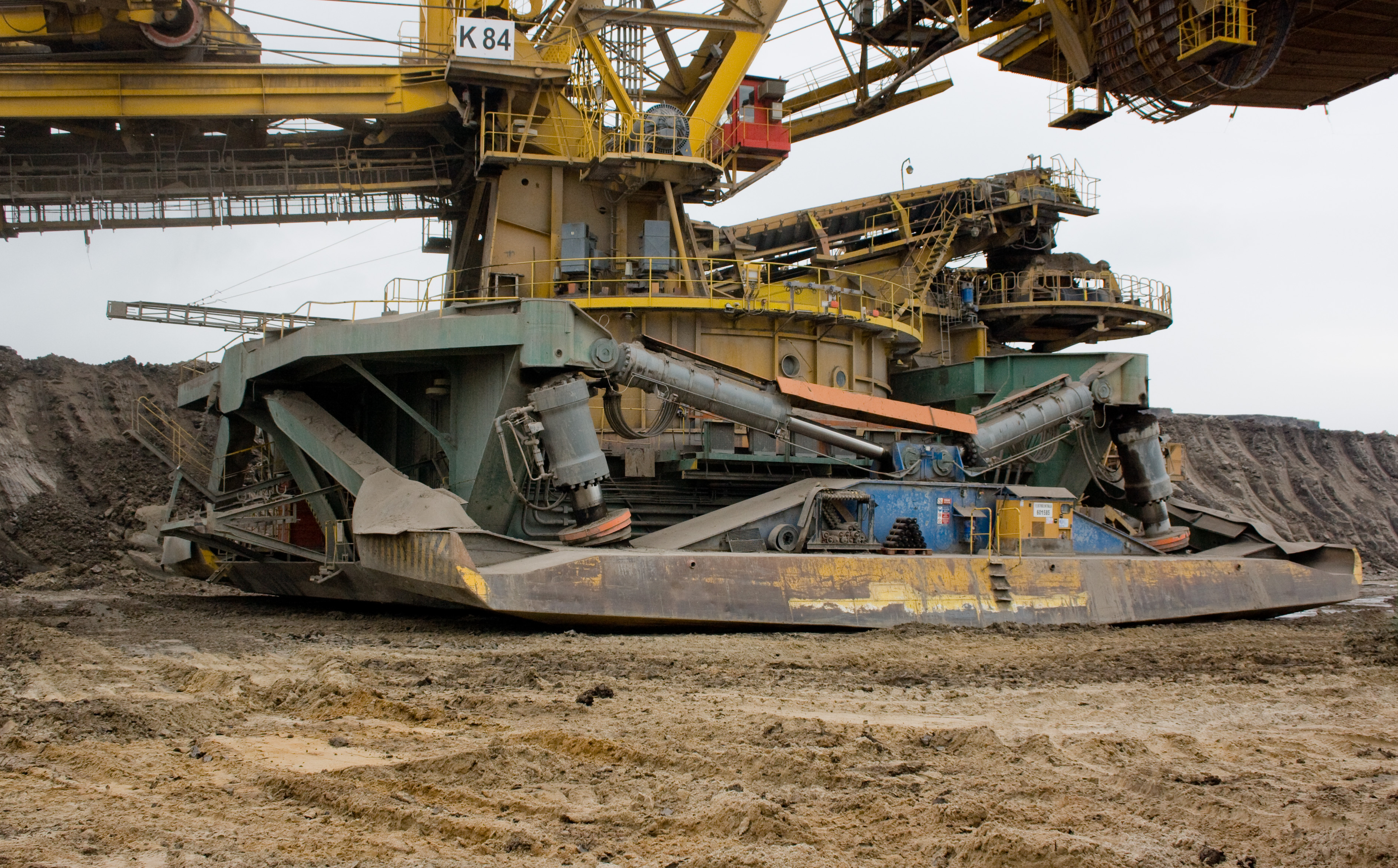 KU 800, Vršany quarry, North Bohemian Basin, Czech Republic Tato série fotografií vznikla za laskavého svolení společnosti CzechCoal